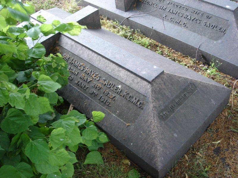 A photo that I have taken.